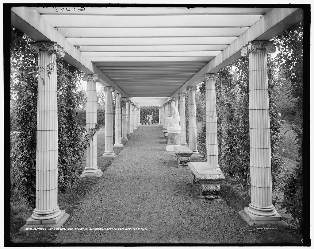 Yaddo, home of Spencer Trask, the pergola, Saratoga Springs, N.Y.